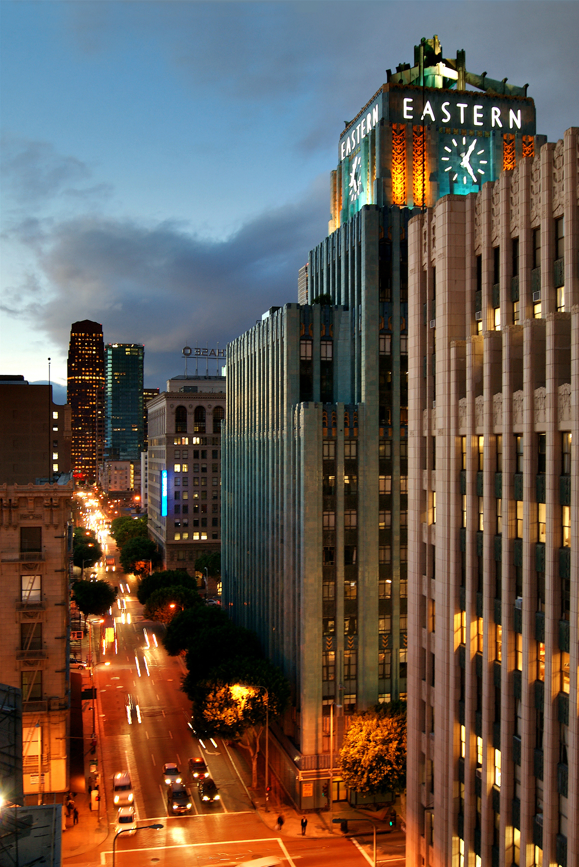 Eastern Columbia Tower